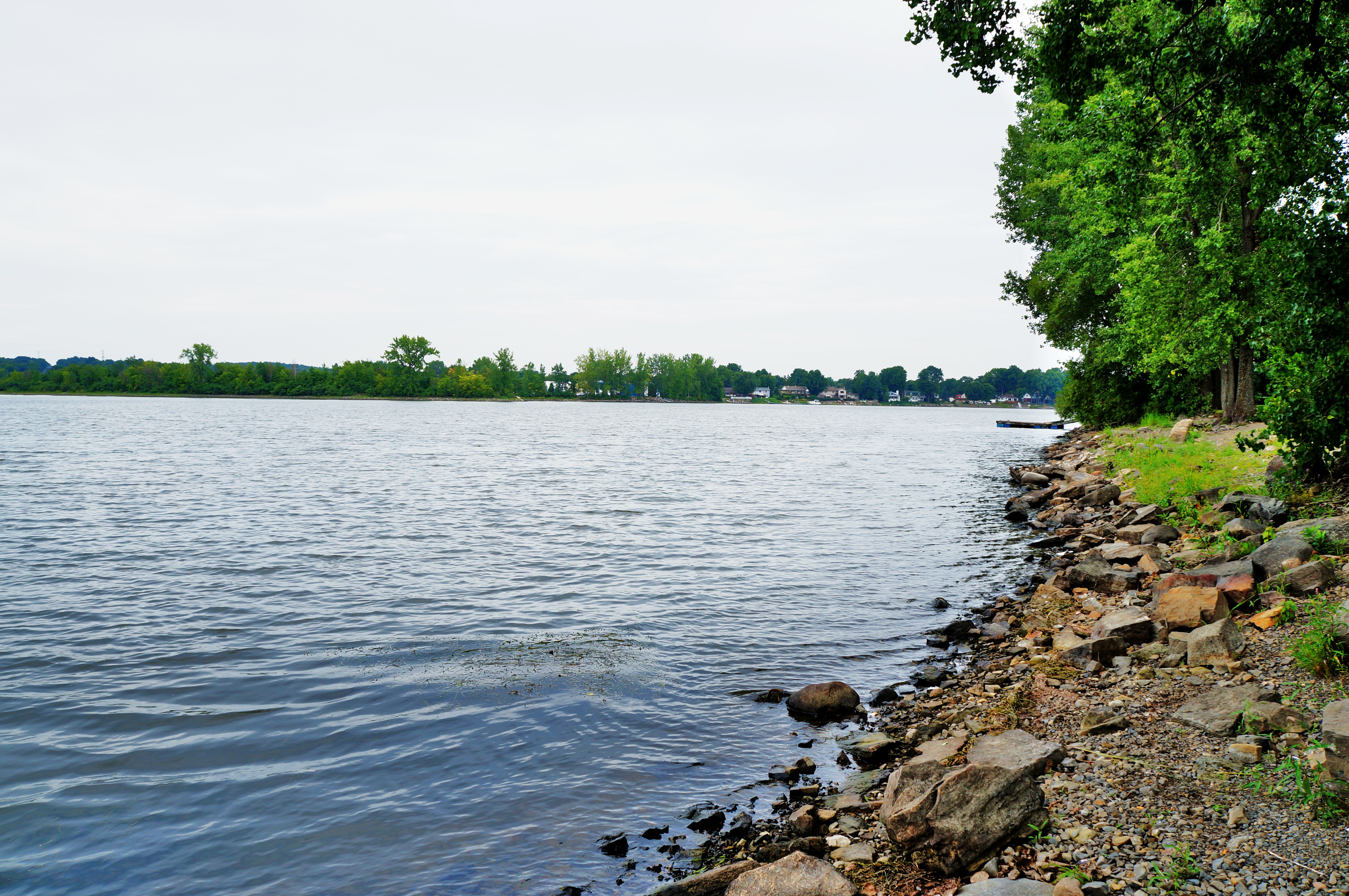 St. Louis Lake shore